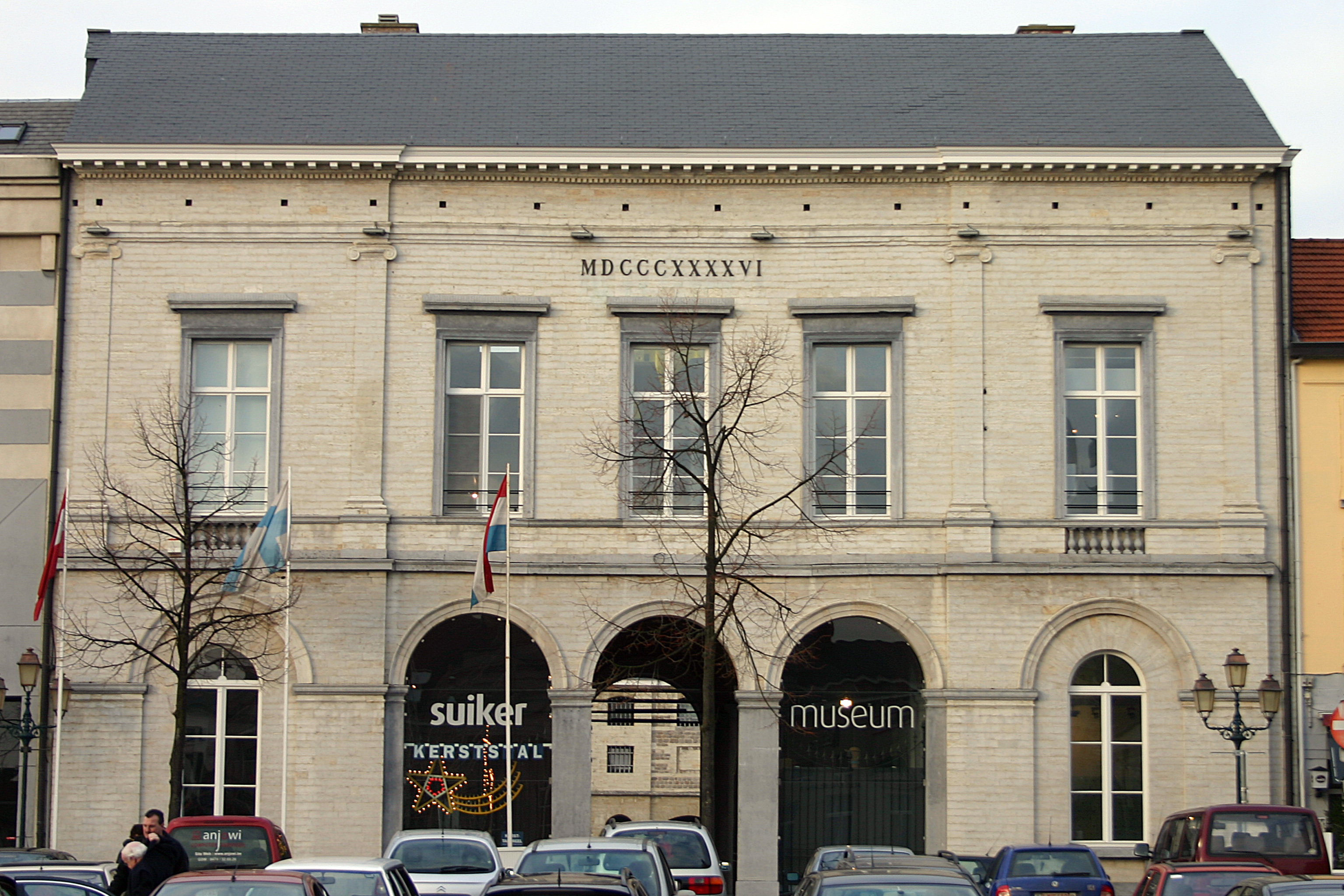 Sugarmuseum on Marketplace in Tienen (The Flanders, Belgium)